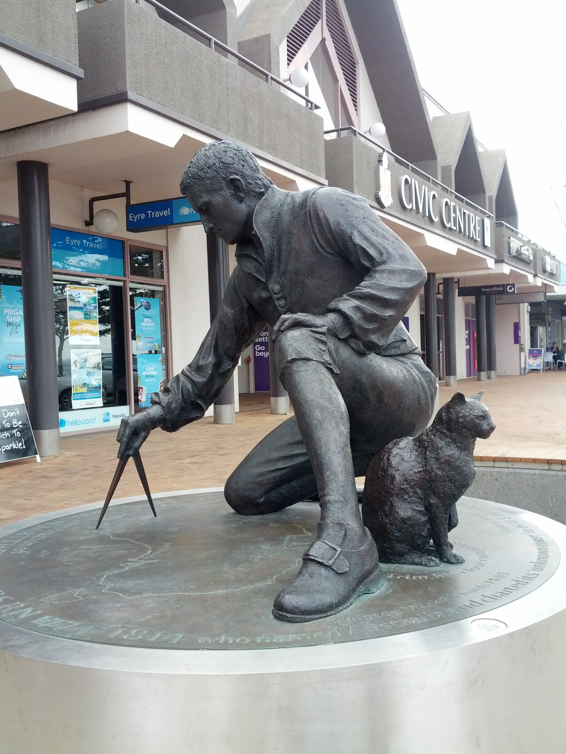 Matthew Flinders with his beloved Trim, Port Lincoln, South Australia.